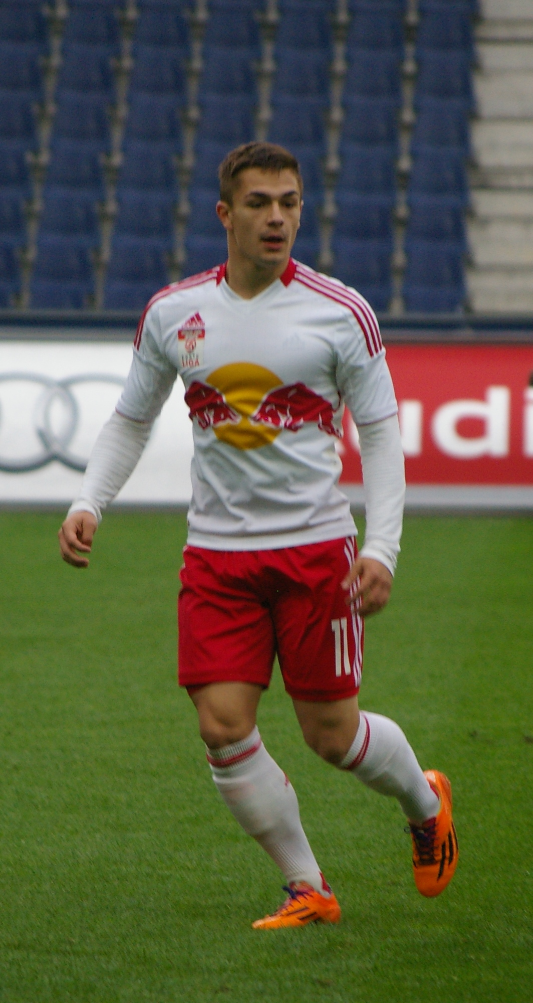 league match Austria 2nd league